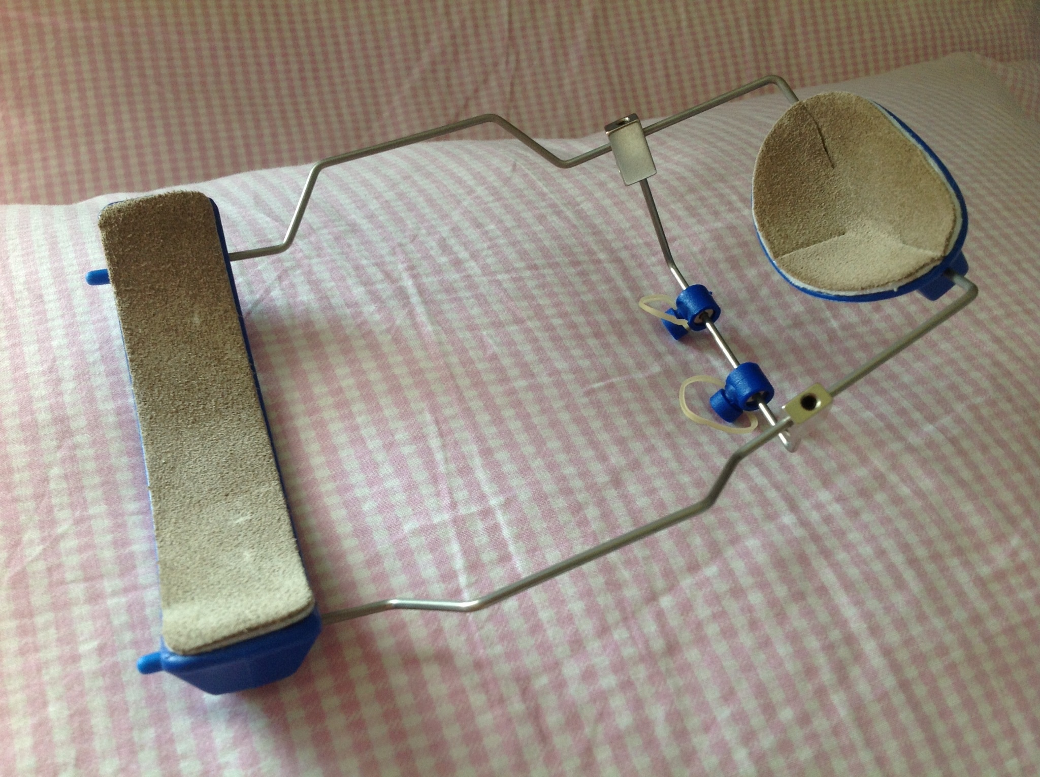 The photo is of the reverse side of an orthodontic extra-oral appliance commonly known as a face-mask or a reverse pull headgear. This spesific design Delaire type face-mask and is fitted to the patients face, the padding that fits to the child's forehead and chin is shown. The appliance is typically worn for between 14 and 16 hours a day during this treatment phase. The mask attaches to the patients upper jaw, typically, with braces fitted, using elastic bands (shown). This pulls the upper jaw forward while it is growing to correct a Class III malocclusion. The elastics also effectivly hold the mask in place, on the patents face.